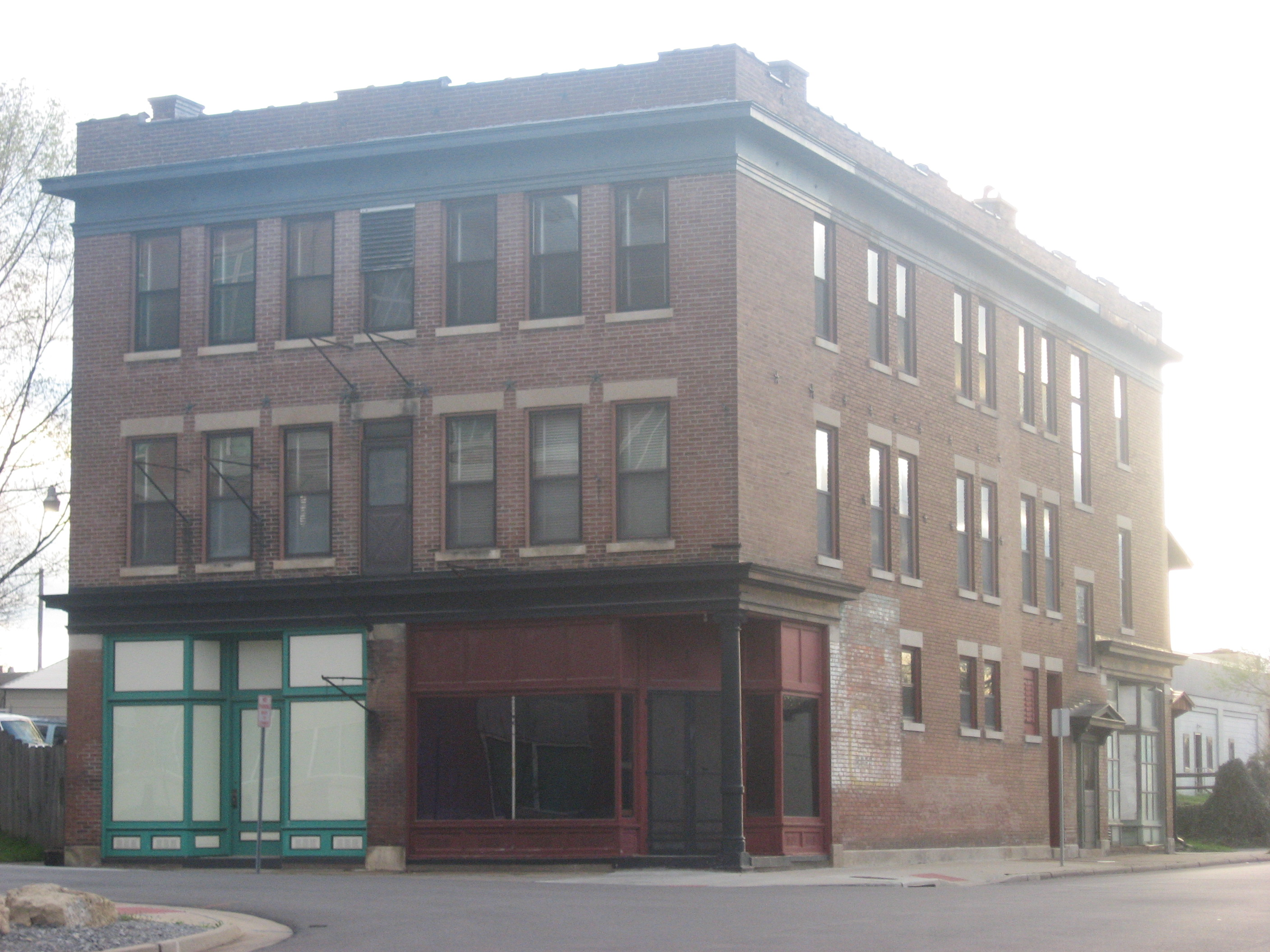 Front and northern side of the Wood Building, located at 1-3 S. Frederick and 605-607 Independence Streets in Cape Girardeau, Missouri, United States. Built in 1910, it is listed on the National Register of Historic Places.